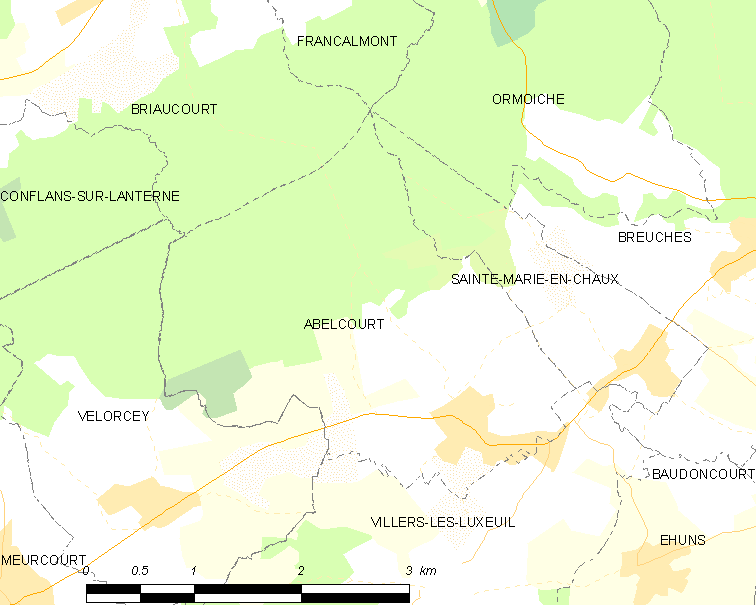 Map of French municipality